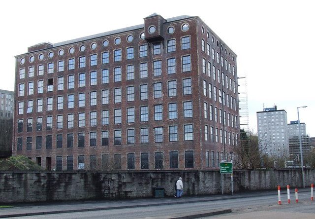 Gourock Ropeworks Building Located on Bay Street, known locally simply as "The Mill". Now being converted to flats after thirty years of neglect and debate about its future. Options ranged from hotel and shopping complex to demolition and house building. Thankfully, this historic building has been saved. It started life as a sugar refinery in 1866 and was later converted to a ropeworks. for more information and 345153 for a view of the opposite side of the building.